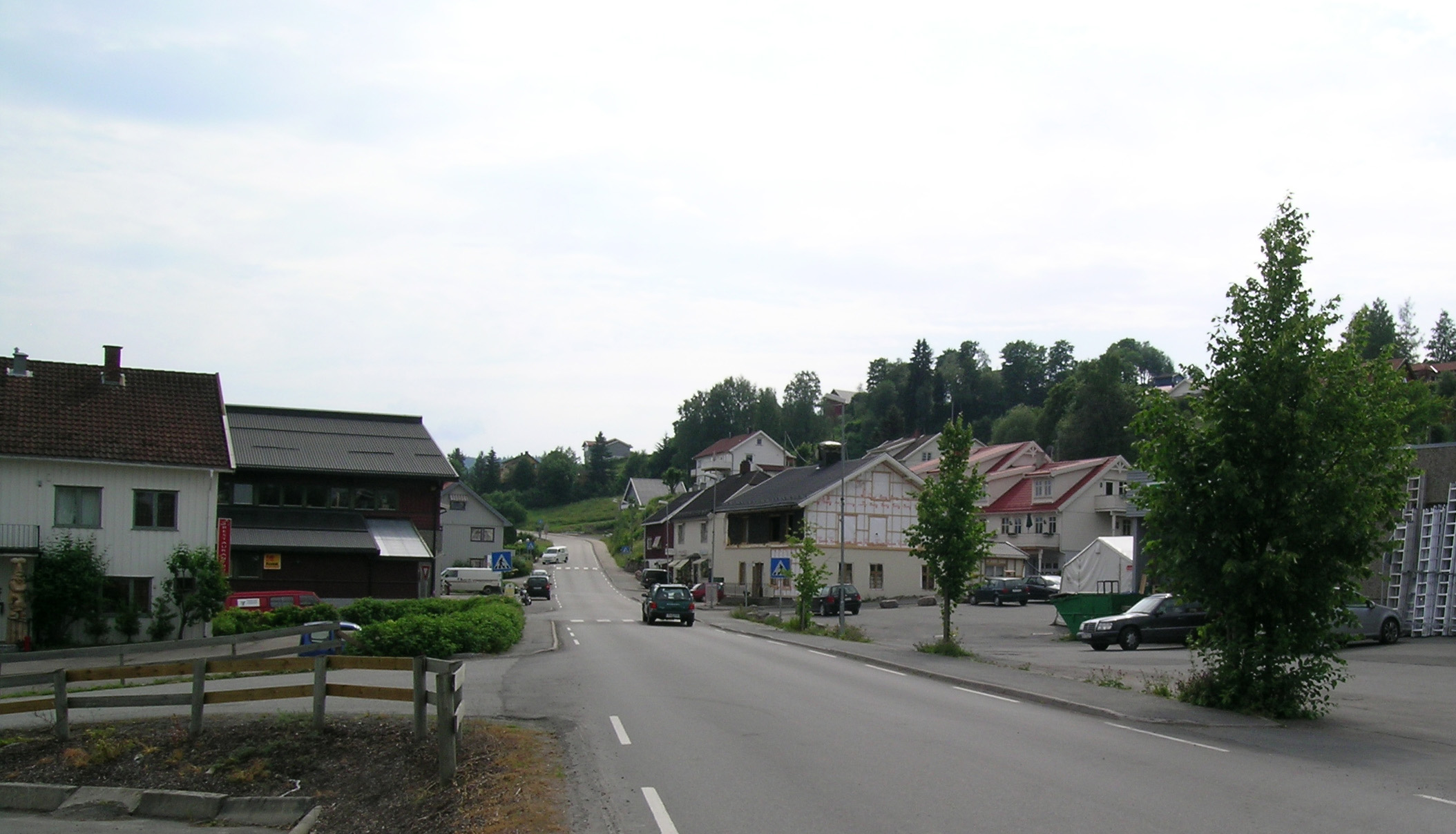 Lunner, Oppland, Norway.